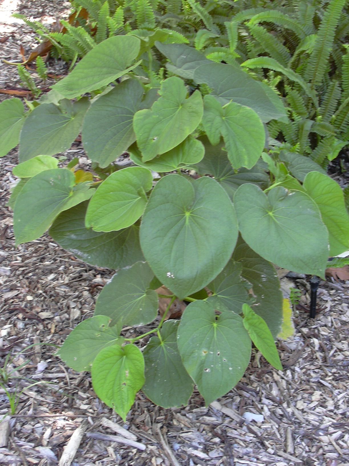 Piper methysticum (habit). Location: Maui, Maui Nui Botanical Garden